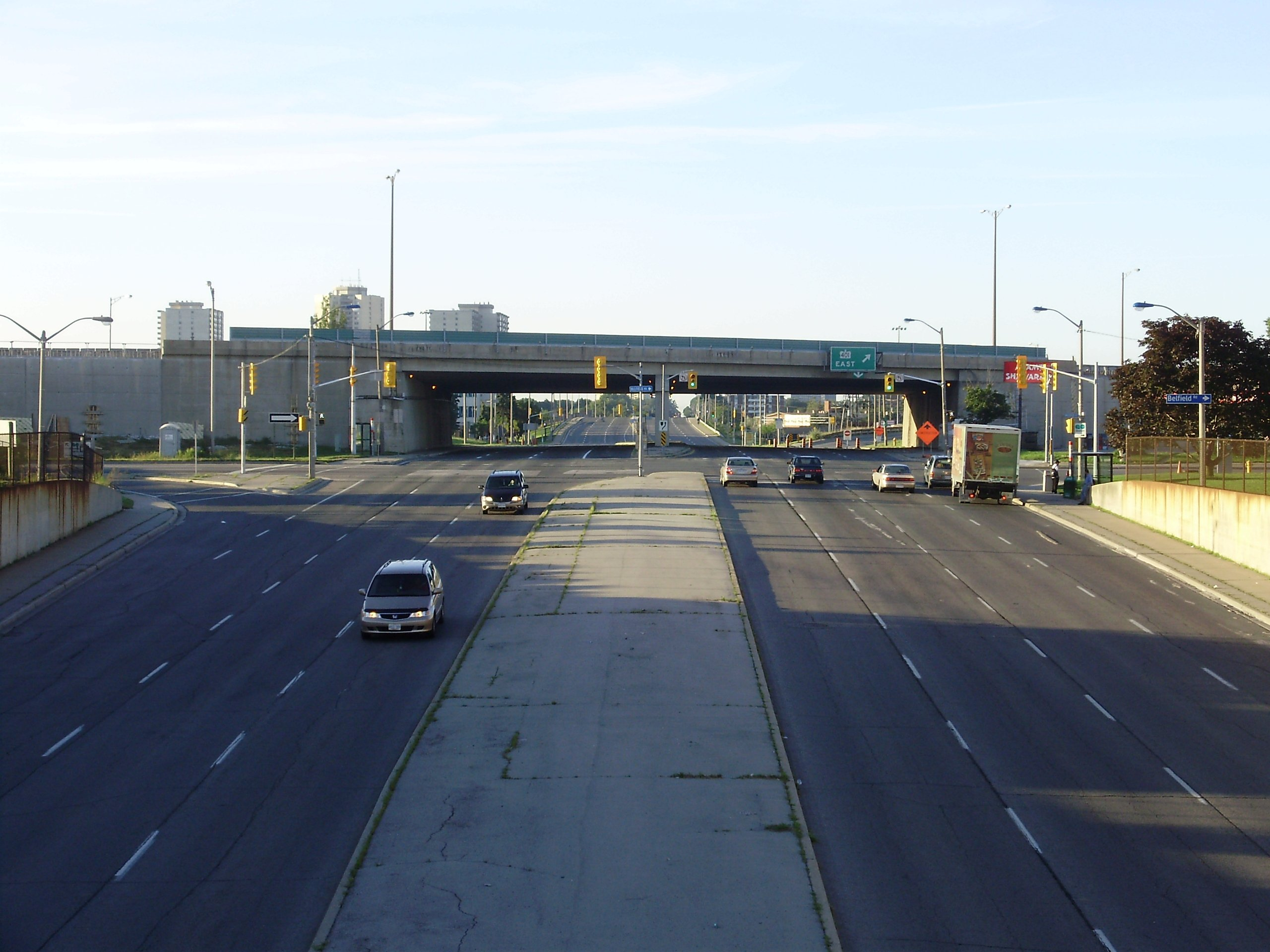 A view of Kipling Avenue, looking south past its intersection with Belfield Road toward the elevated bridge carrying Highway 409. Photograph taken from the Etobicoke North GO Station footbridge in Toronto, Ontario, Canada.